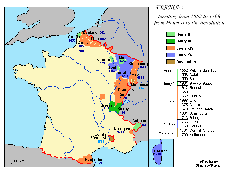 Added more info that was somehow forgotten,attempted at improving the poor qualities of the file. Original file:thumb